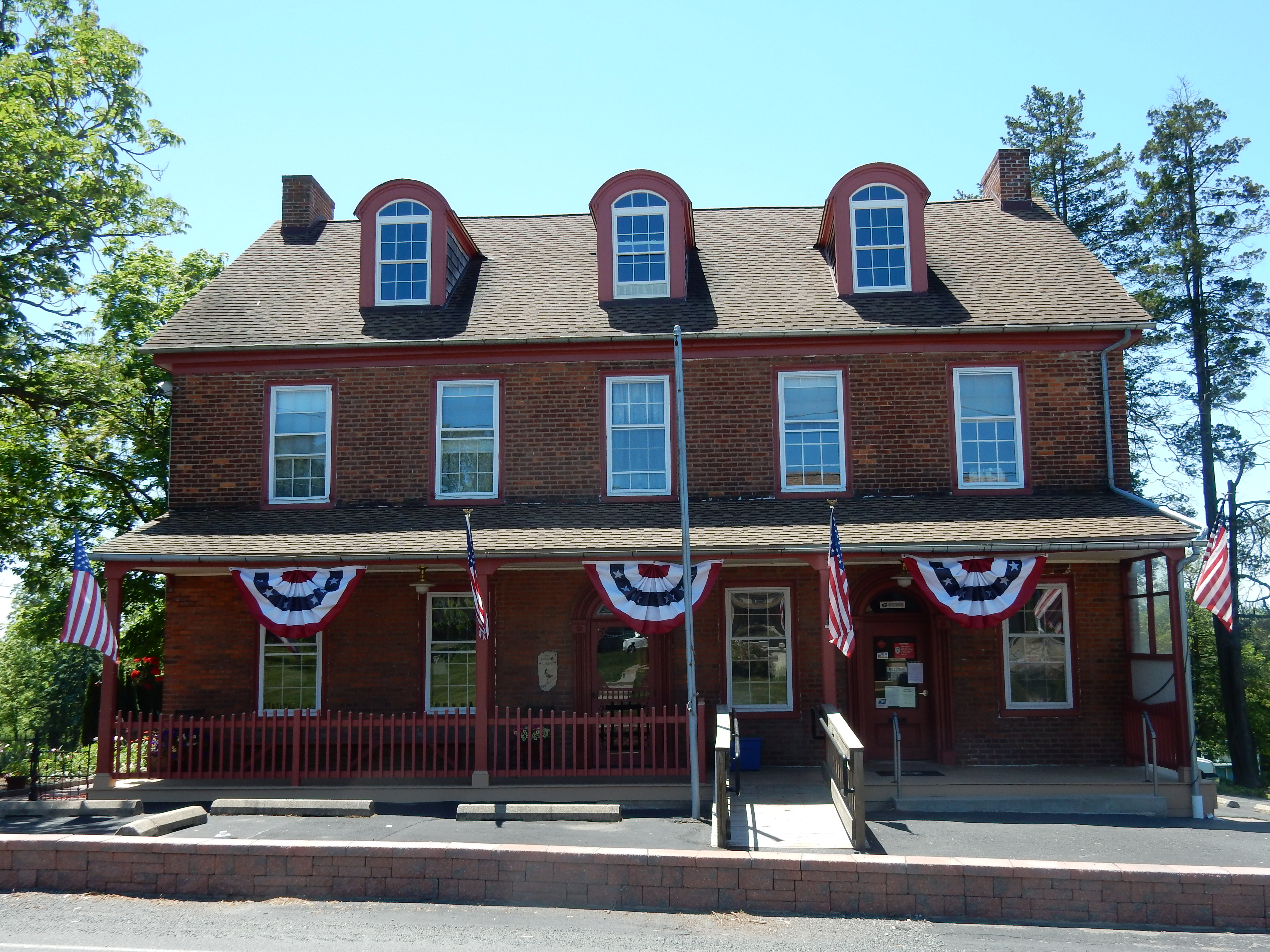 U.S. Post Office 19472, Sassamansville, Pennsylvania.140 Hoffmansville Rd.